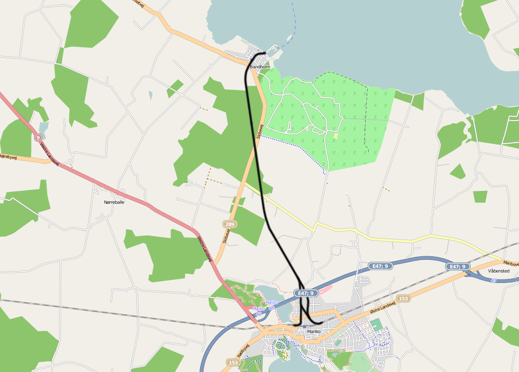 Railway line Maribo - Bandhom Havn